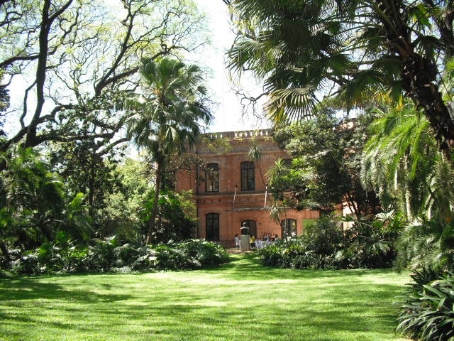 Buenos Aires Botanical Garden